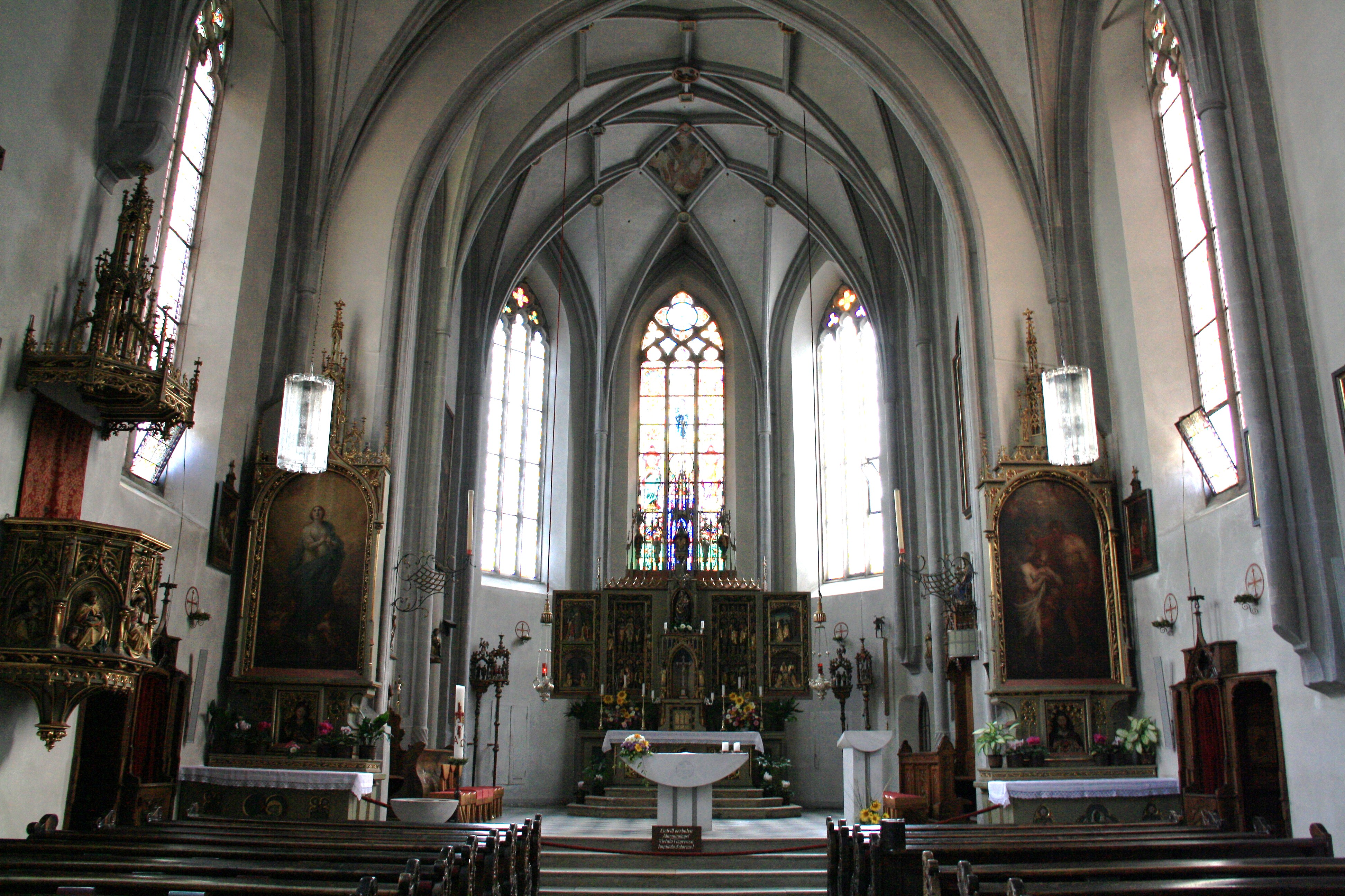 Italy, South Tyrol, Klausen, Hl. Apostel Andreas. The church has a single nave showed by the reticular of the vaulting ribs.